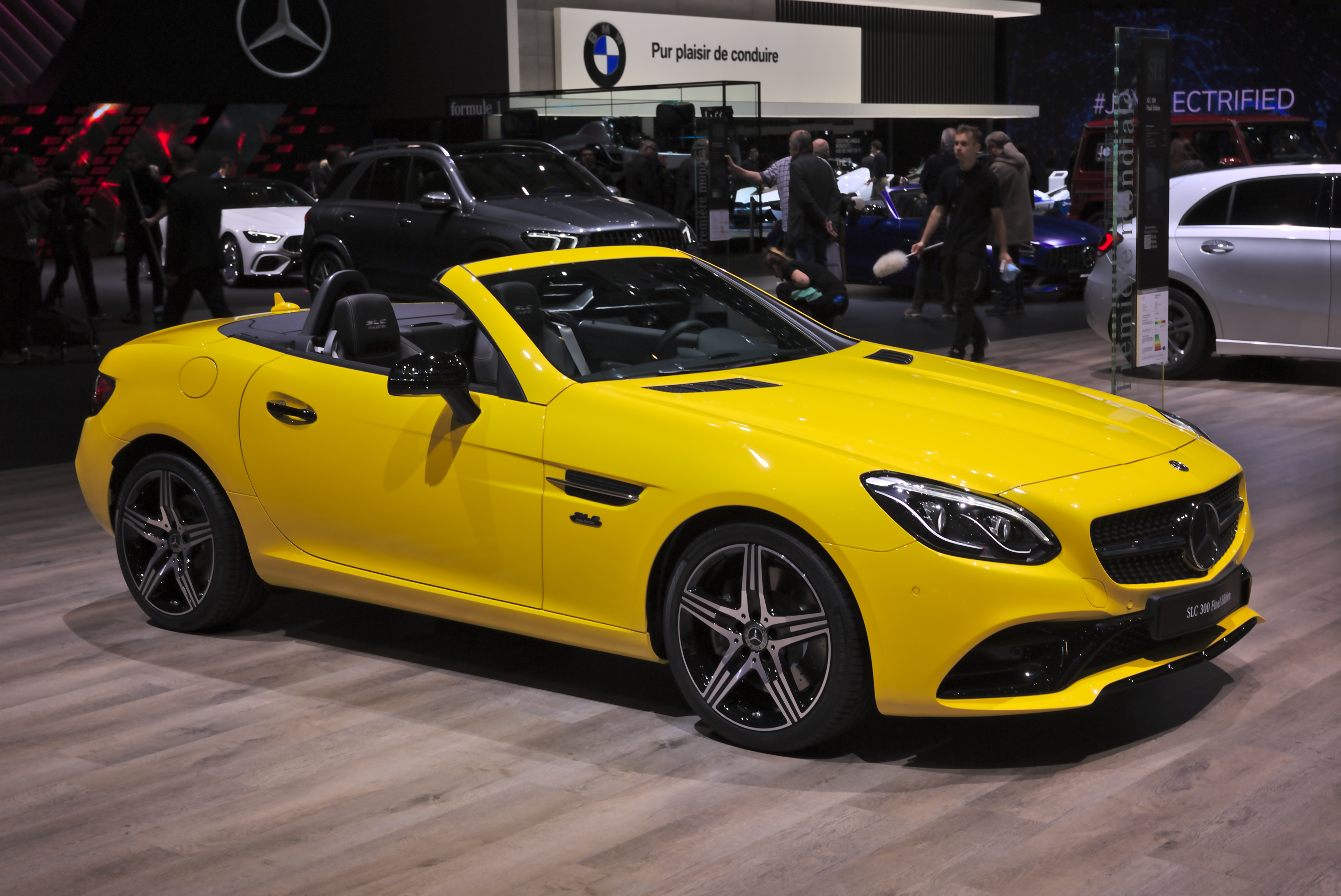 Mercedes-Benz SLC 300 Final Edition at Geneva Motor Show 2019